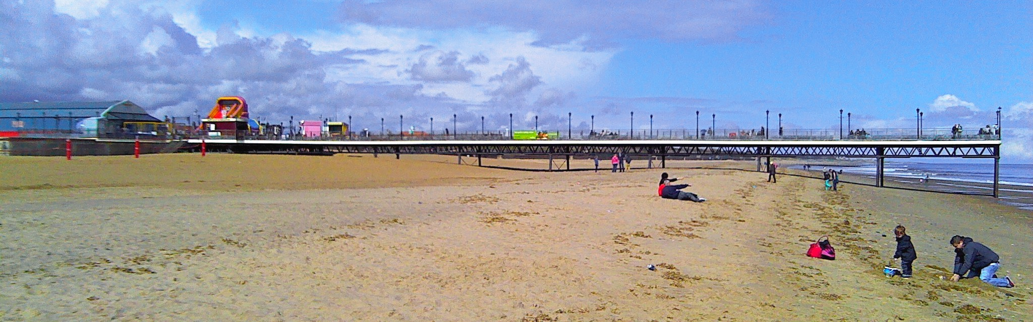 Skegness Pier, April 2012